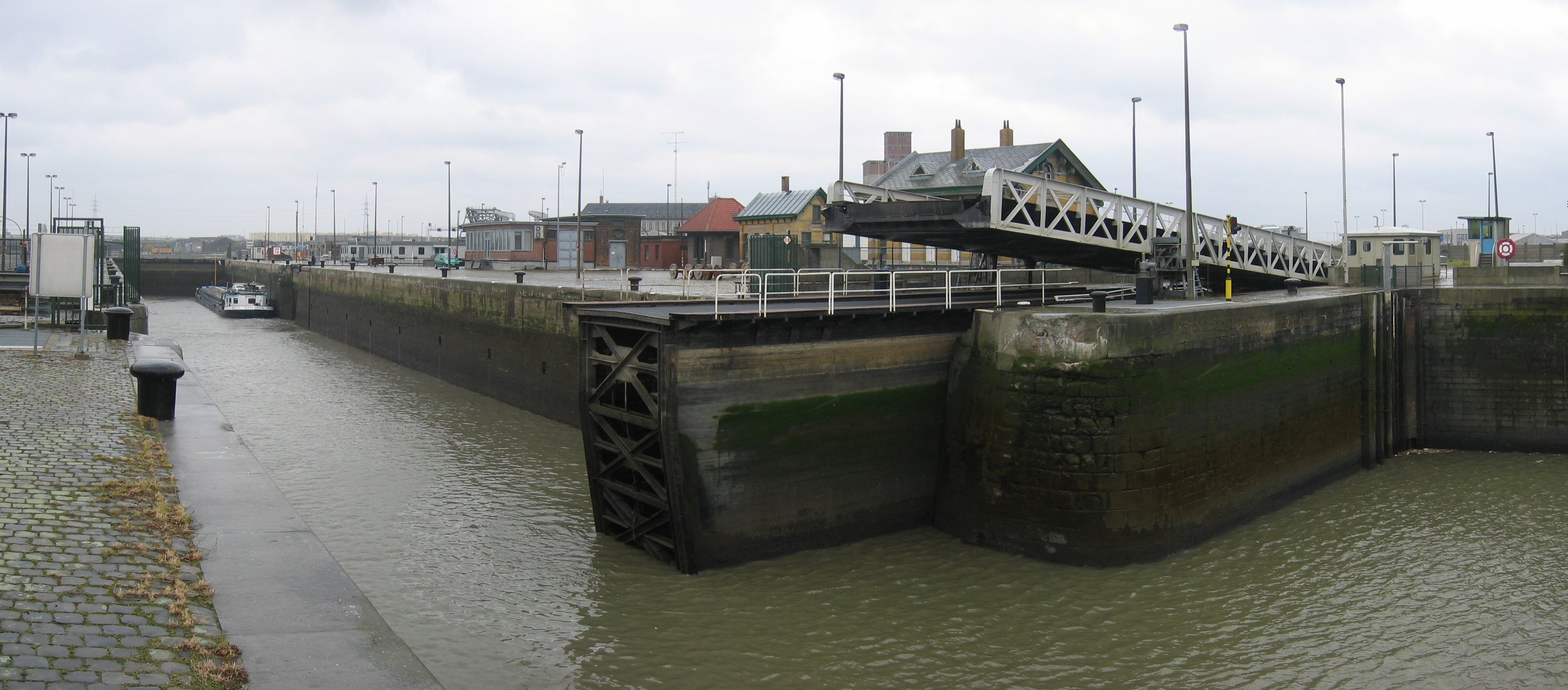 The Royersbrug in the harbour of Antwerp is a combination of rollbridge and bascule bridge